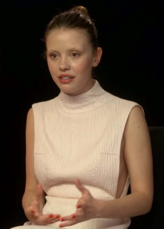 The cast of creepy new horror remake Suspiria, Dakota Johnson and Mia Goth, and director Luca Guadgnino, reveal exactly how they made the film’s moments of horror SO terrifying, Luca’s plans for Dakota Johnson to star in his Call Me By Your Name sequel, and which actor Dakota Johnson would recast as Ana in Fifty Shades for a sequel.